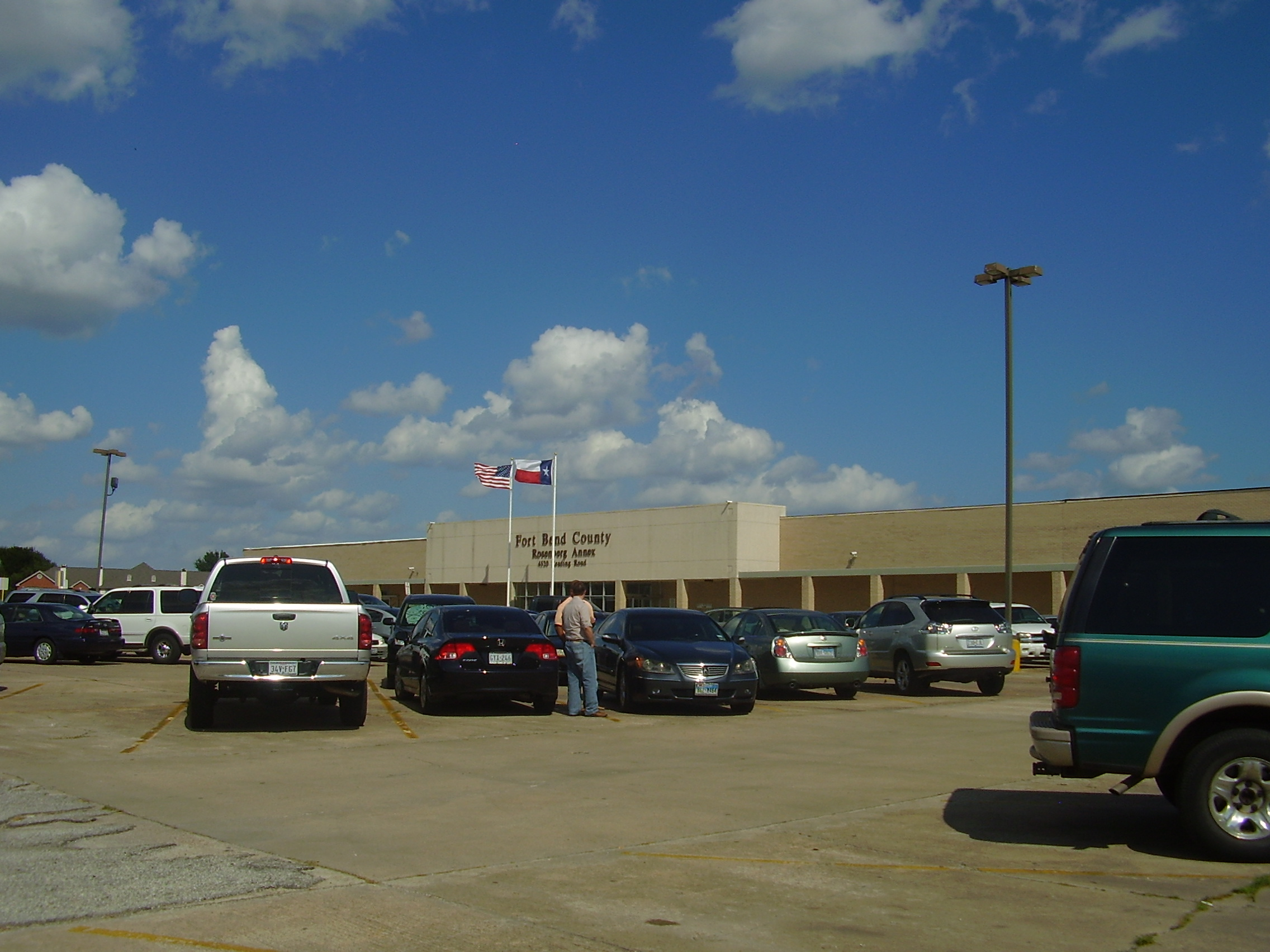 Fort Bend County Rosenberg Annex - Reading Road